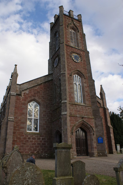 Auchenblae Kirk Taken from the edge of the graveyard, this is an impressive church for such a small town